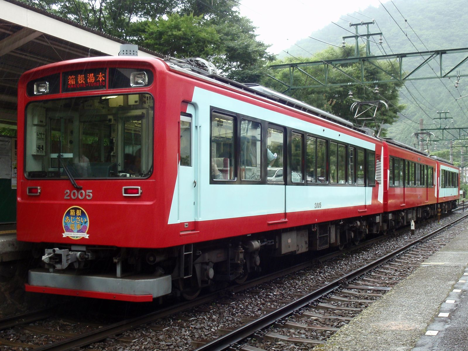 Hakone tozan Railway EMU type 2000 "Glacier Express"